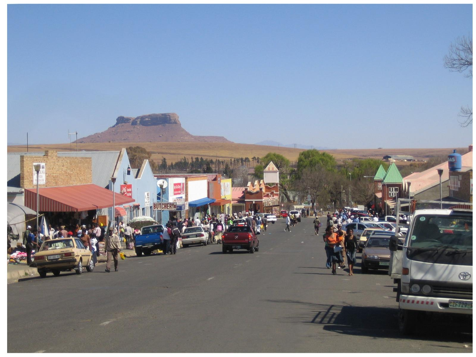 Harrimith Main and Market Street.